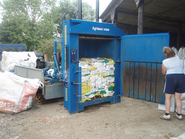 Farm waste compactor/waste baler AgriMAC V250 by Agritel on a farm near to Great Gidding, Cambridgeshire, Great Britain. The disposal of farm waste is now strictly controlled, here chemical containers which have been thoroughly rinsed out, are compacted into a bale. Fertiliser bags, silage wrap in fact anything that is surplus to the farm operation is deemed waste and must be disposed of through licensed waste contractors.